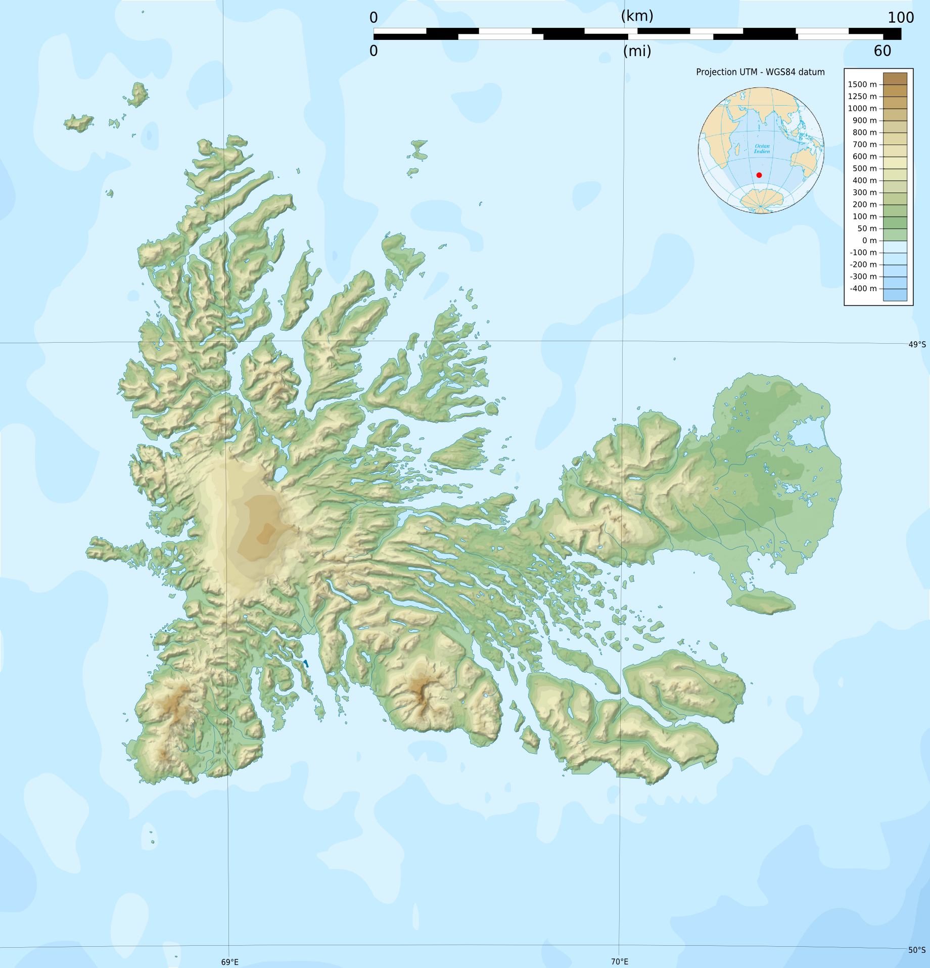 Blank topographic map of the Kerguelen Islands, Indian Ocean, France. Use the SVG version for translations and correcting mistakes.